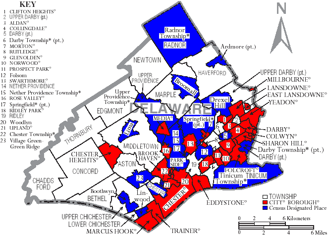 Map of Delaware County, Pennsylvania, United States with township and municipal boundaries